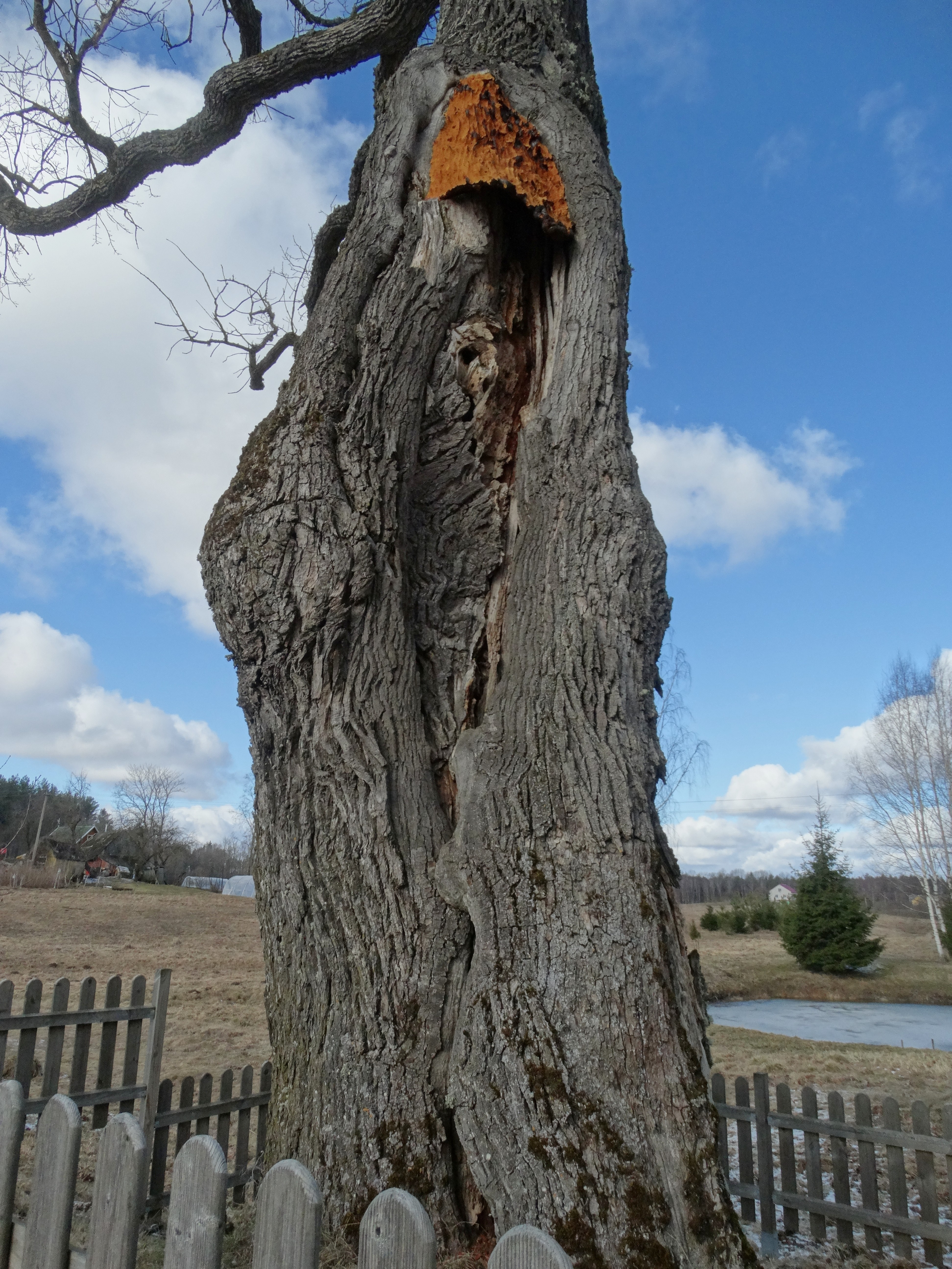 Oak (first) in Mukuliai, Zarasai district, Lithuania